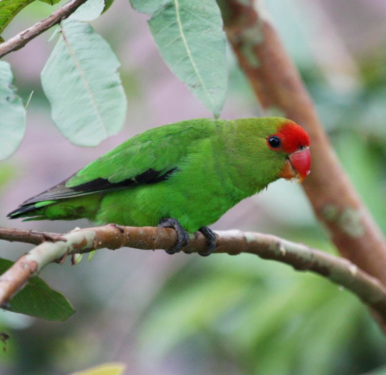 A male Black-winged Lovebird in a guava tree (eating semiripe) guavas, in Bahir Dar, Ethiopia